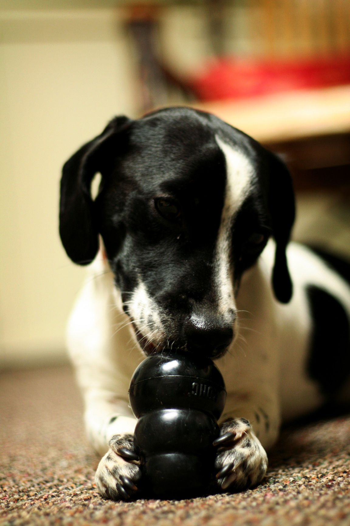 We read a lot of good things about KONG toys for dogs and so we got one for Cosmo. Basically they are nearly-indestructible rubber toys with an empty center - you fill them up with snacks and dogs work to get them out. Cosmo loves his and was really working to get the last bits of peanut butter out tonight. View On Black